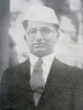 This is an image of the Mangalorean politician, Joachim Alva.